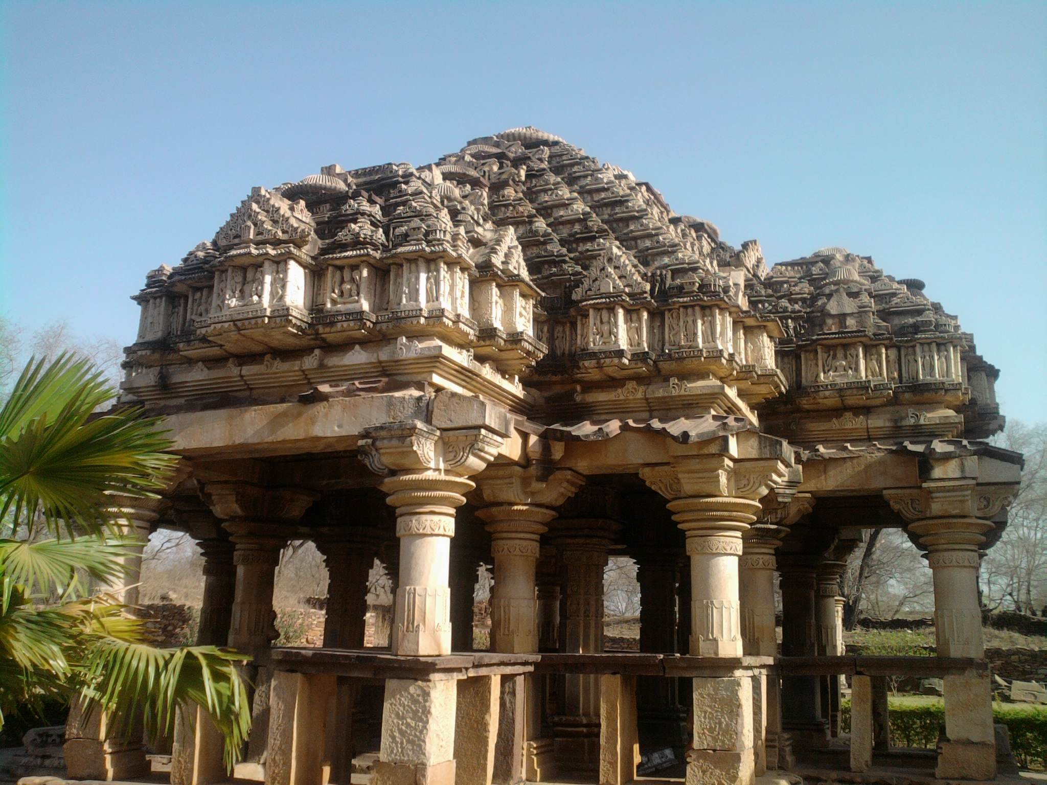 Baroli Temples at nearby Baroli village are one of the oldest temple complexes (9th century AD) in Rajasthan. The chief architect of the Baroli temples was from Orissa